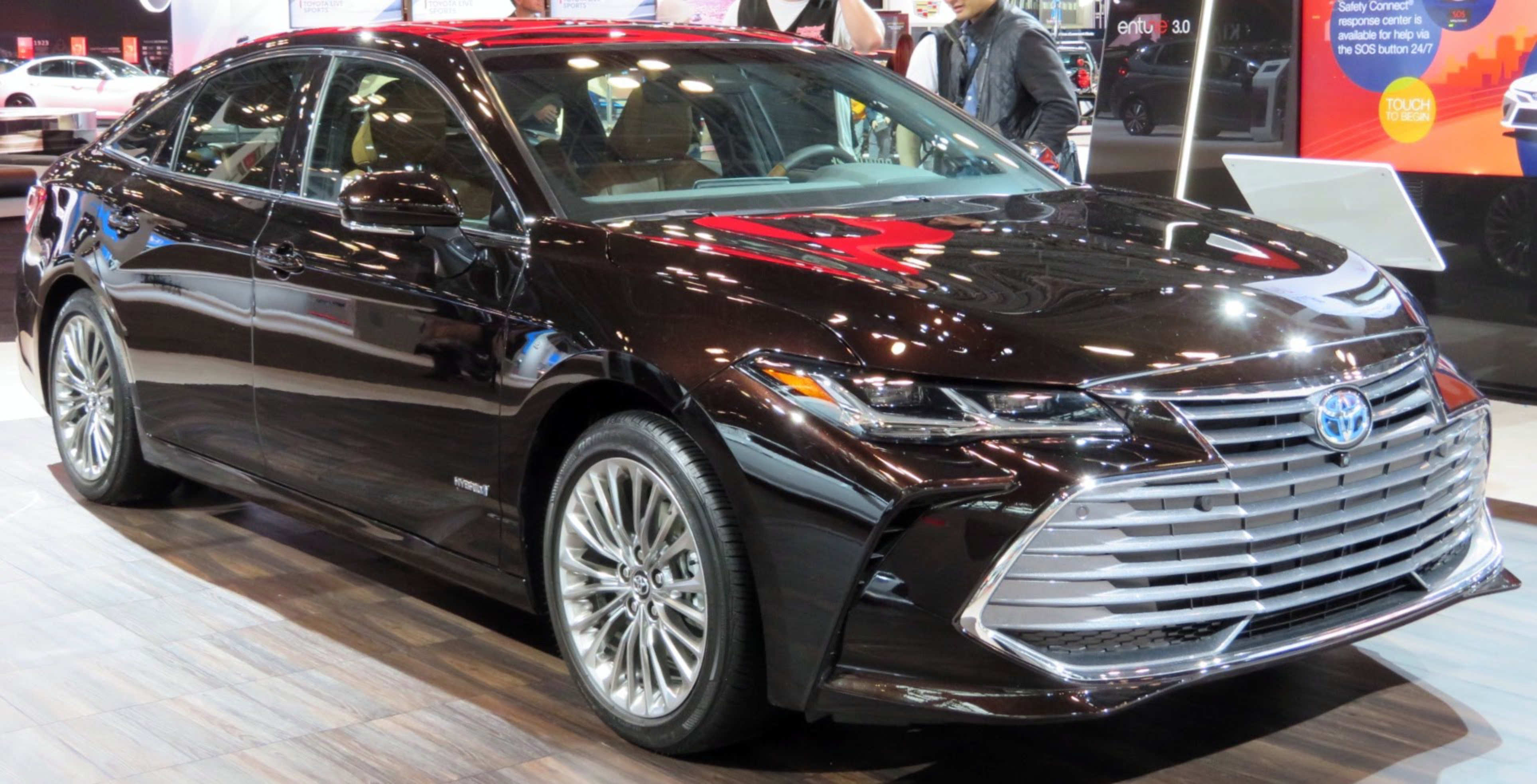 In New York International Auto Show, at Manhattan, New York